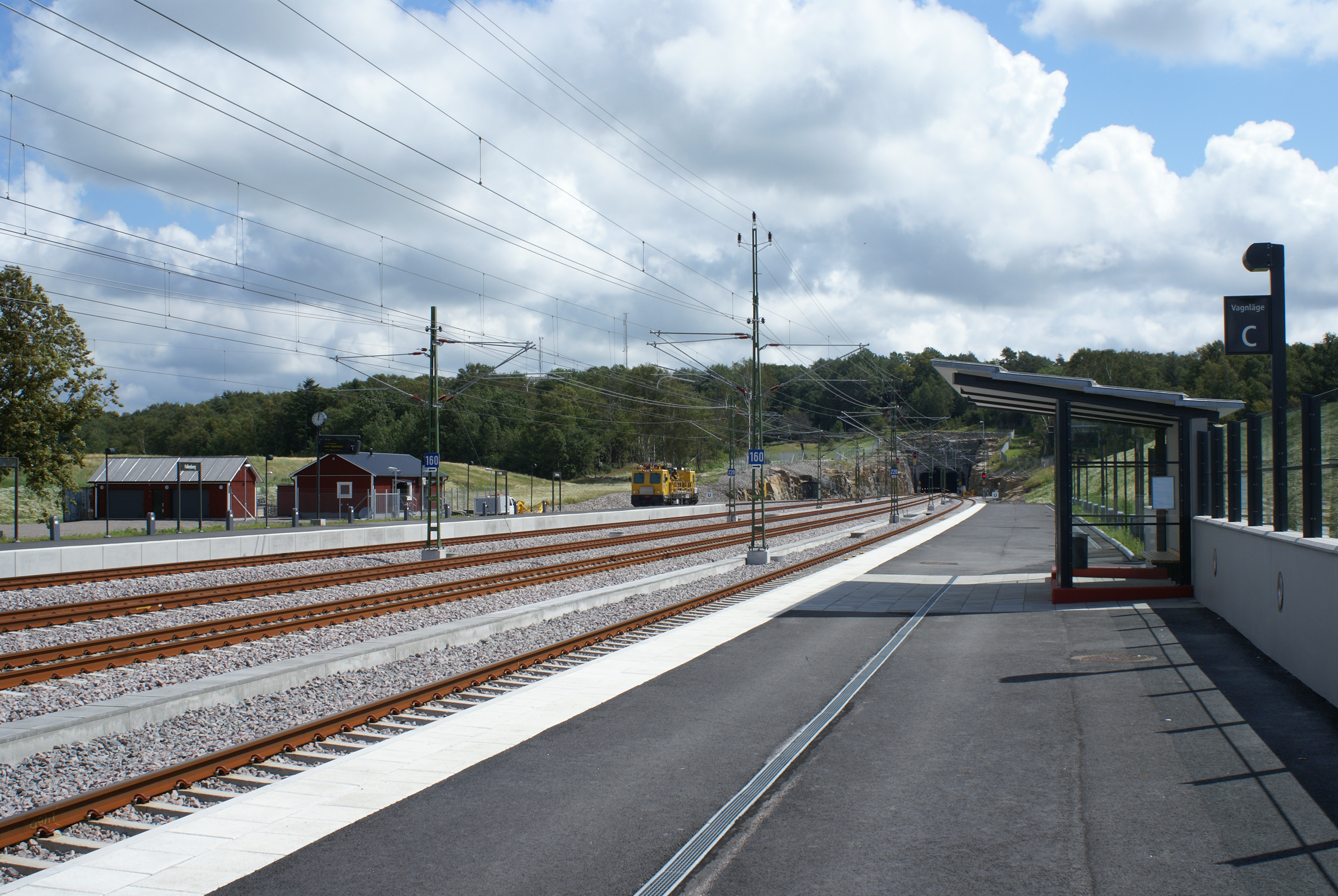 Falkenberg new railway station